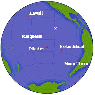 Simple map of globe, seen from area of Pitcairn Island with location of Essex sinking marked. Ocean waters along continental shelves are shaded in darker hue. Parallels of latitude are at 20-degree intervals. Labels are in English.